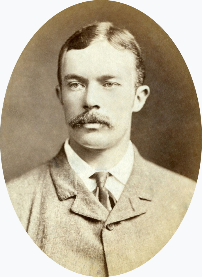 Cricketer Frank Penn who played for Kent County Cricket Club and was also a member of The Lord Harris XI cricket team, which toured Australia and New Zealand, circa 1878-1879.